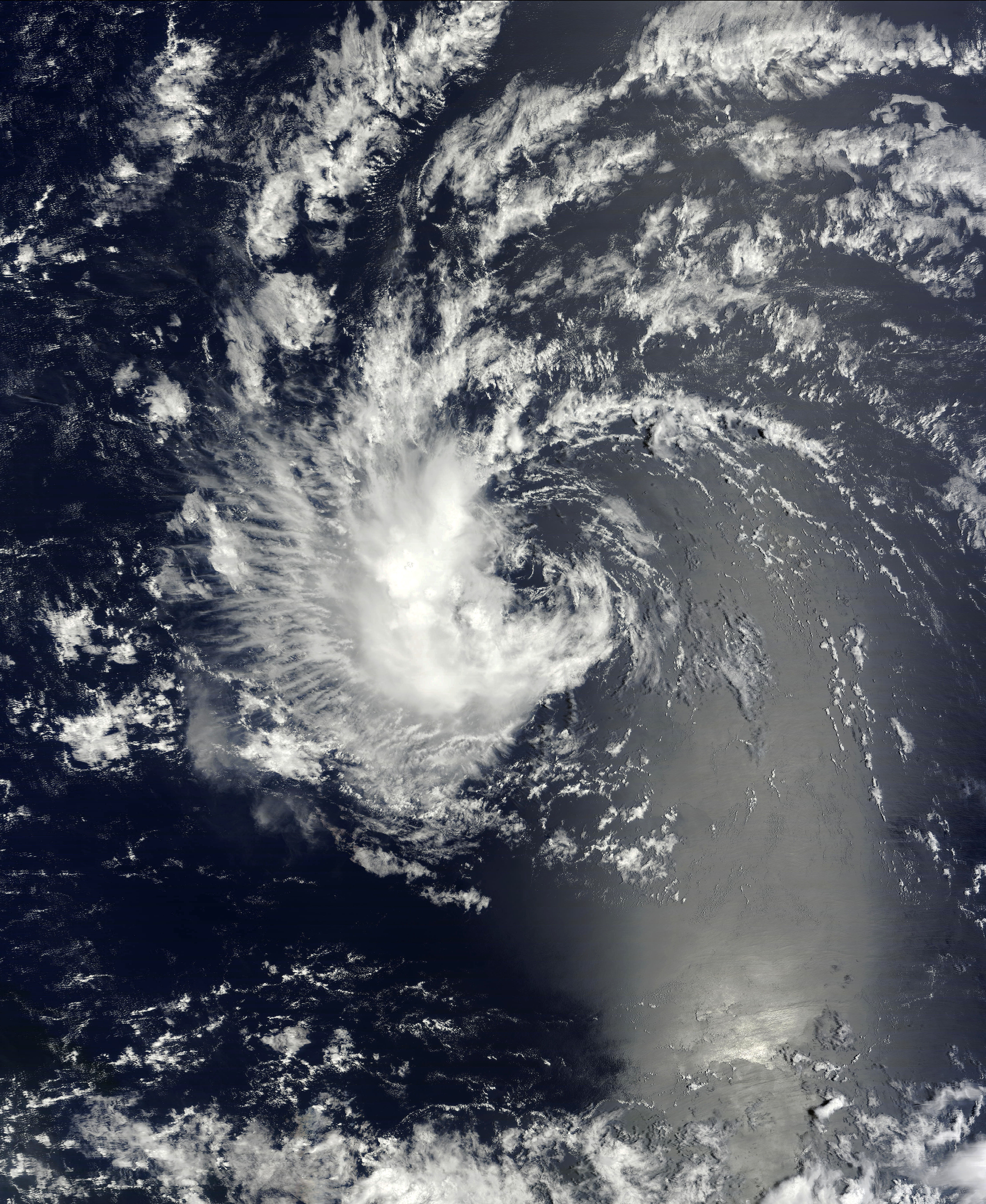 Tropical Wave Gaston.